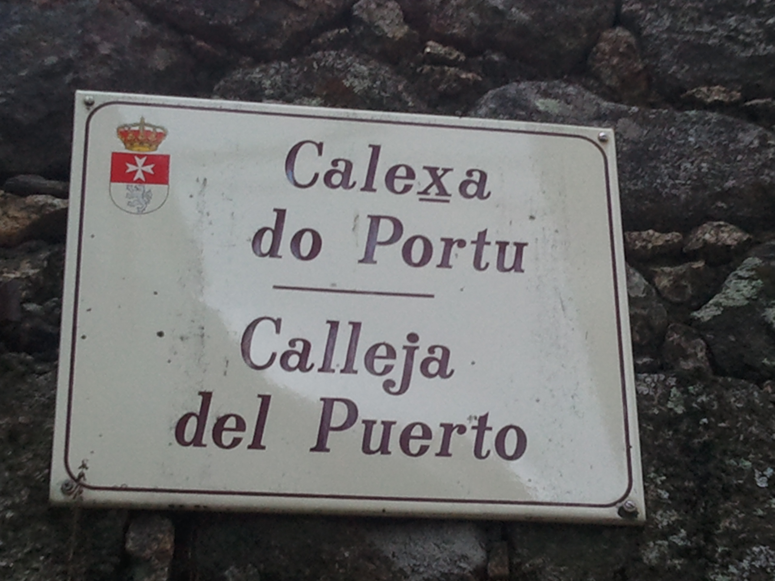 Sing in San Martín de Trevejo. The text is bilingual Fala-Spanish